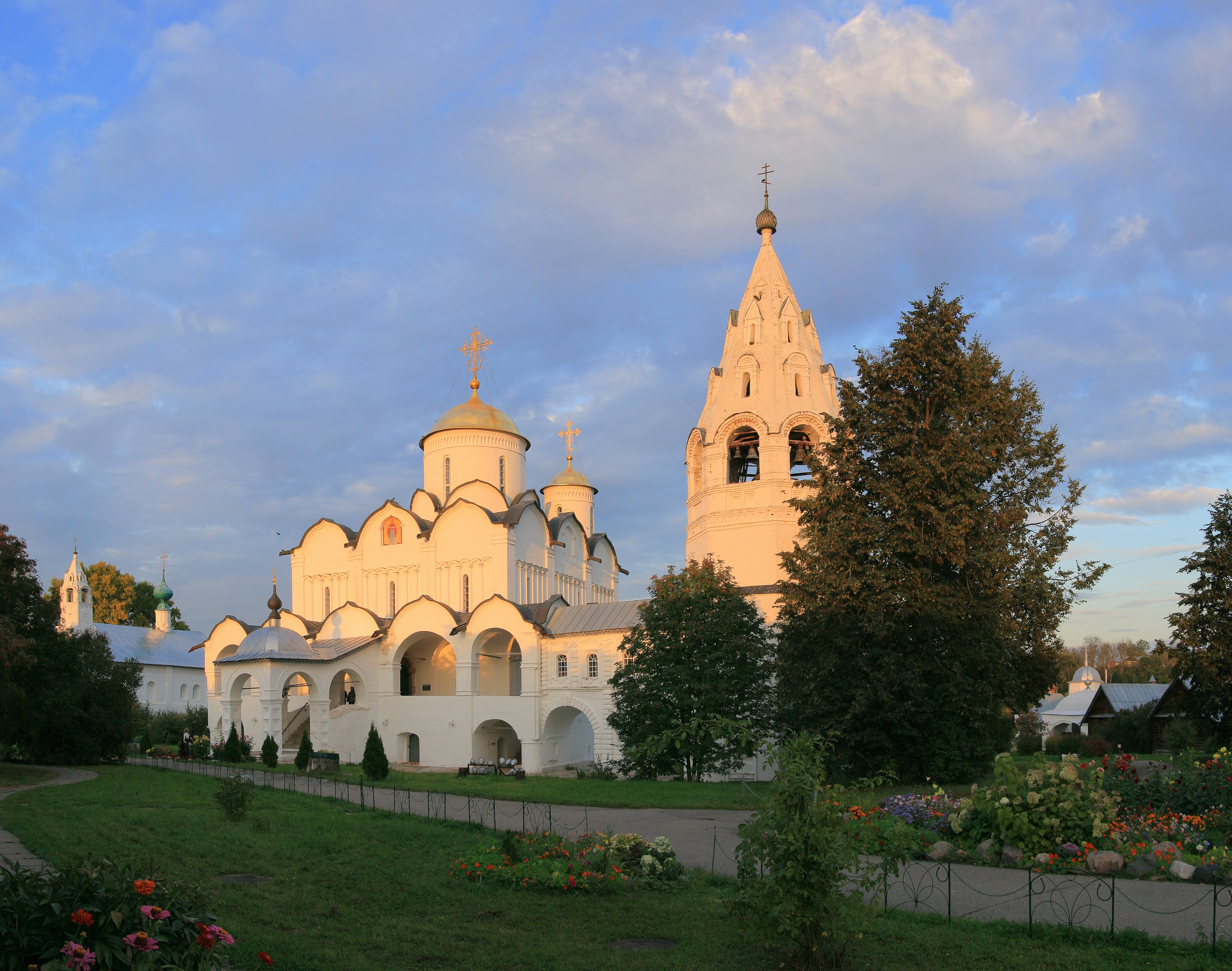 Cathedral of the Intercession, Convent of Intercession, Suzdal, 1518